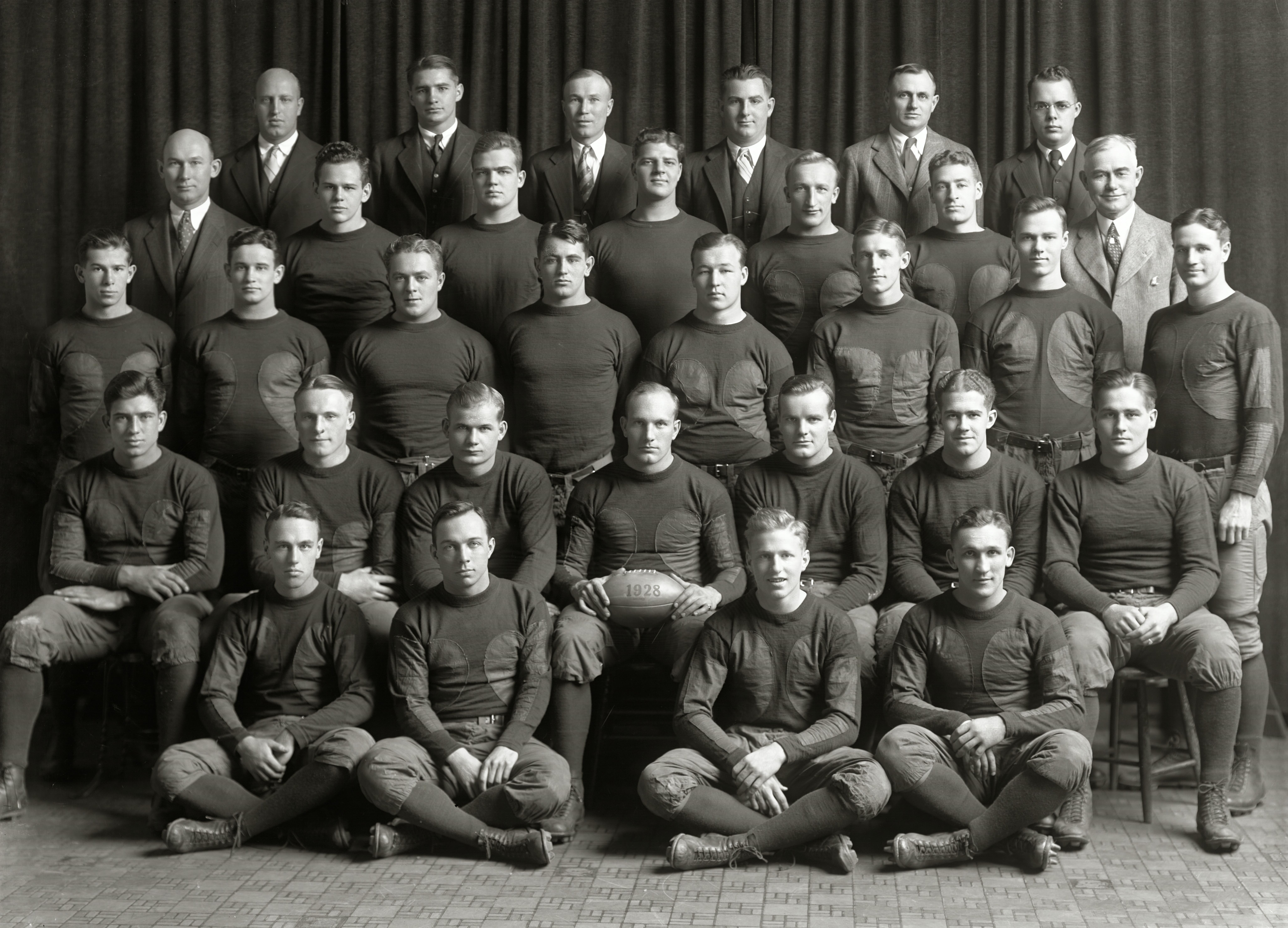 Photograph of 1928 Michigan Wolverines football team This work is in the public domain because it was published in the United States between 1925 and 1963 and although there may or may not have been a copyright notice, the copyright was not renewed. Unless its author has been dead for the required period, it is copyrighted in the countries or areas that do not apply the rule of the shorter term for US works, such as Canada (50 pma), Mainland China (50 pma, not Hong Kong or Macao), Germany (70 pma), Mexico (100 pma), Switzerland (70 pma), and other countries with individual treaties. See Commons:Hirtle chart for further explanation. This work is in the public domain in the United States because it was published in the United States between 1925 and 1977, inclusive, without a copyright notice. For further explanation, see Commons:Hirtle chart as well as a detailed definition of "publication" for public art. Note that it may still be copyrighted in jurisdictions that do not apply the rule of the shorter term for US works (depending on the date of the author's death), such as Canada (50 p.m.a.), Mainland China (50 p.m.a., not Hong Kong or Macao), Germany (70 p.m.a.), Mexico (100 p.m.a.), Switzerland (70 p.m.a.), and other countries with individual treaties.